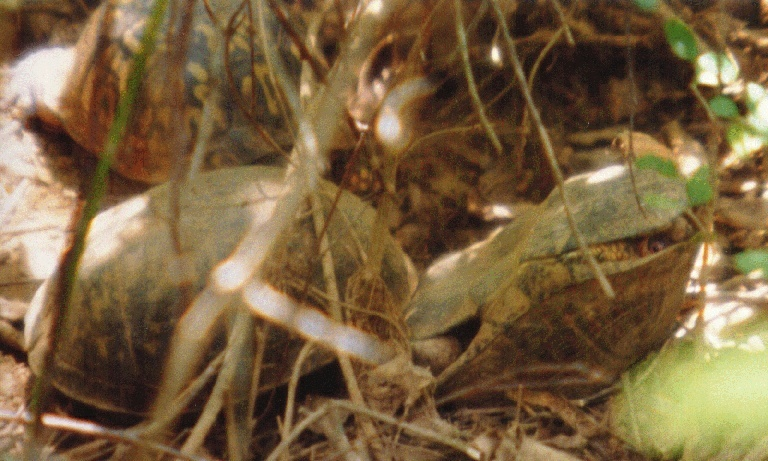 posted by the photographer, Kenneth E. Leonard